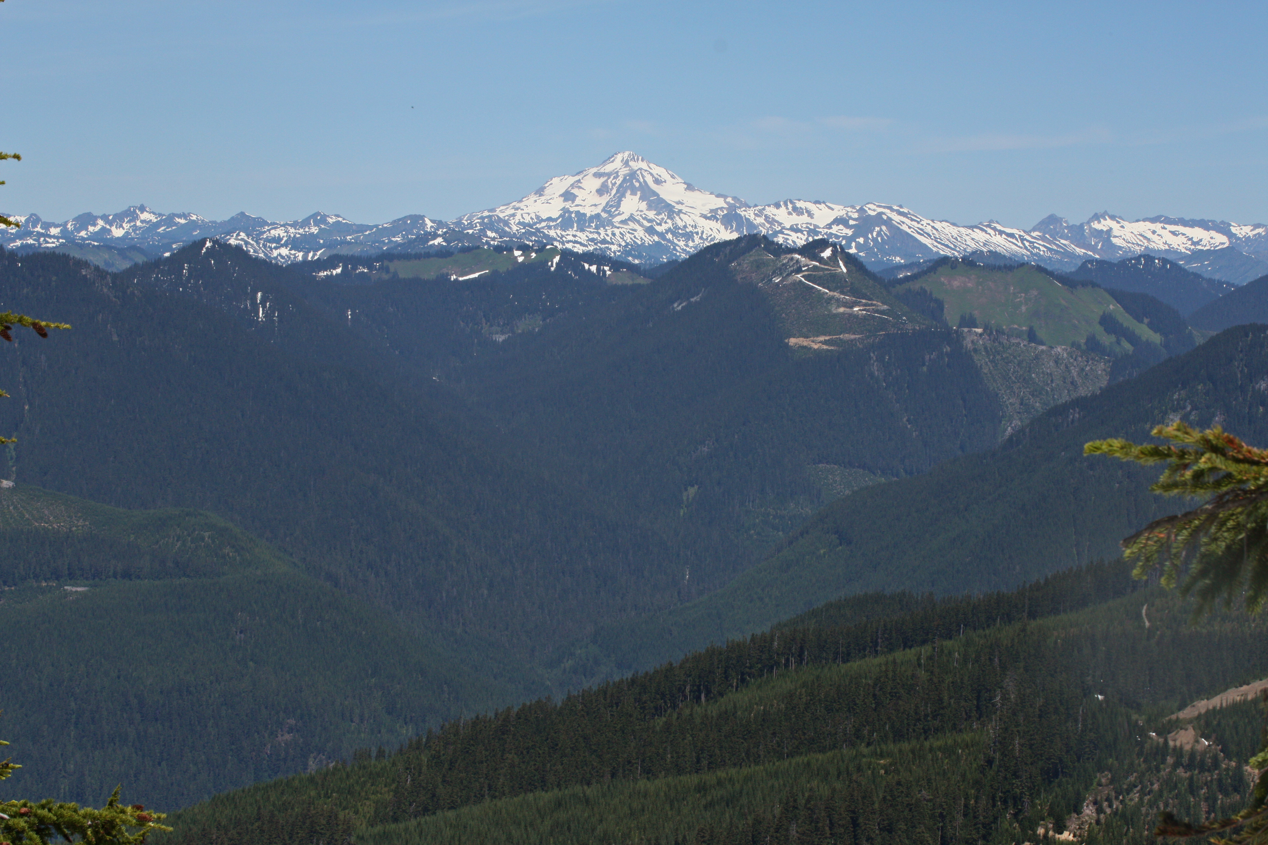 Glacier Peak (center skyline, 10,520+ feet, 3206+ meters), Captain Point (right center, middle distance, 5724 feet); forest (Abies amabilis, Pseudotsuga menziesii, and other species), clear-cuts of various ages, logging roads